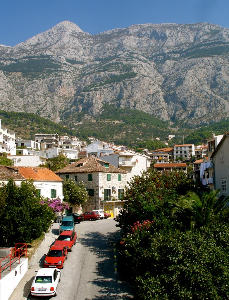 Village and Mountains in Croatia. A view from Makarska to the Biokovo.